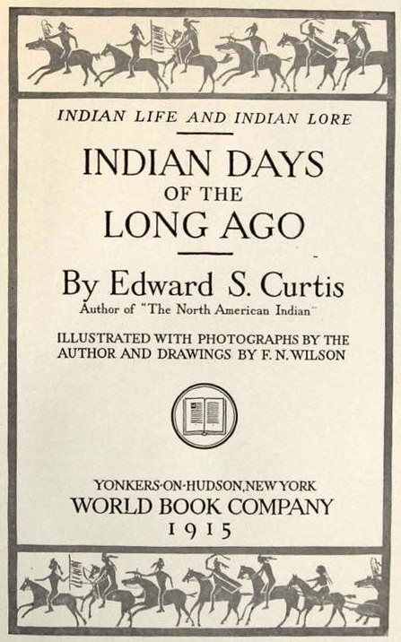 Cover for Indian Days of the Long Ago, 1915 by Edward Sheriff Curtis (1868-1952).